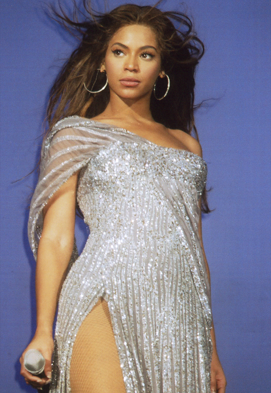 Beyoncé Knowles performing "Listen" during "The Beyoncé Experience" in Munich, Bavaria